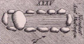 Megalithic tomb near Niendorf I, Sprockhoff-No. 763